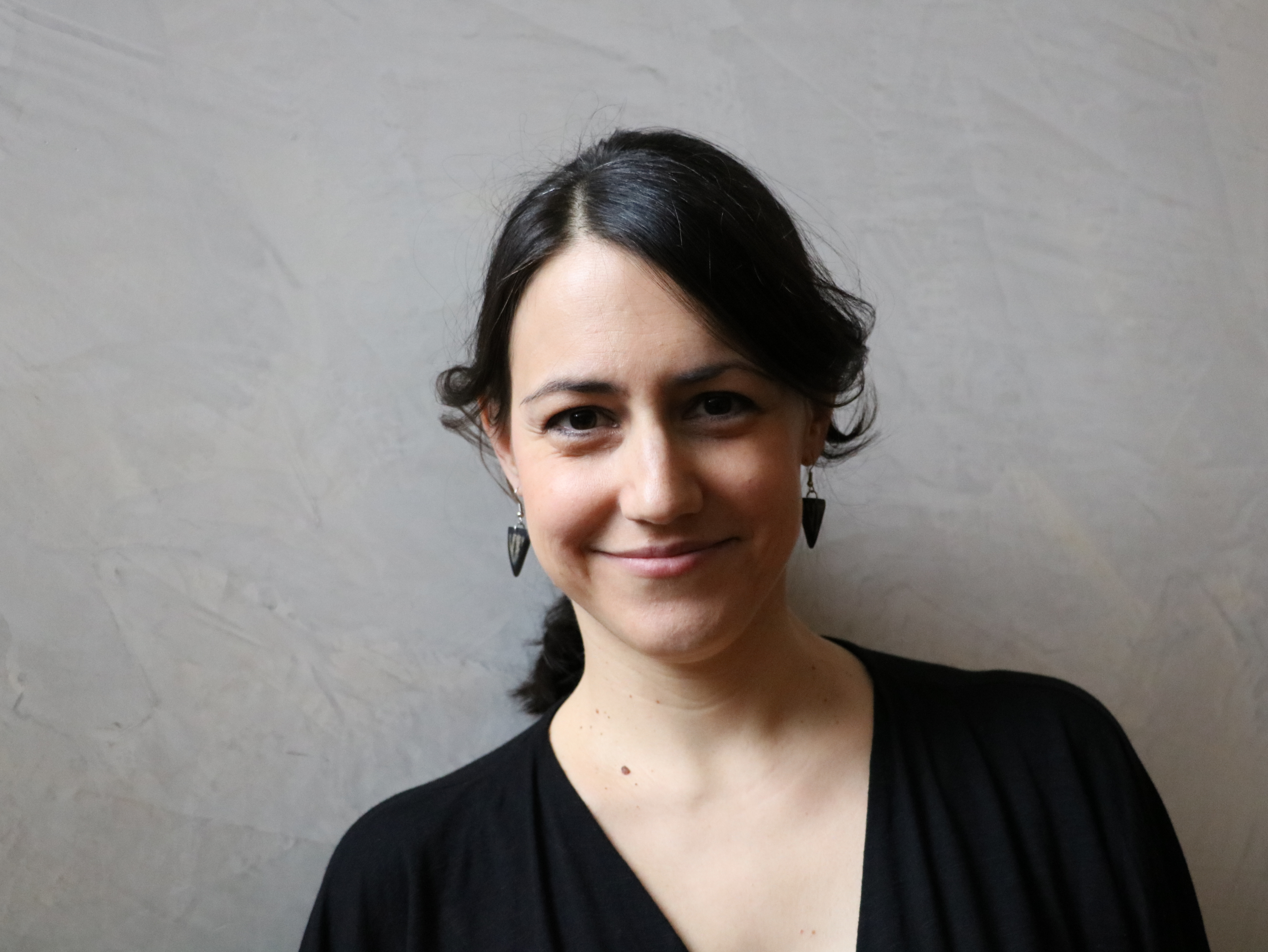 Lidija Bizjak, pianist, February 3rd, 2017, Nantes.